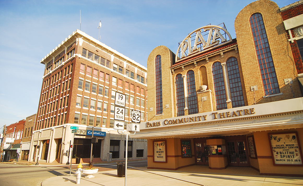 Part of historic downtown Paris